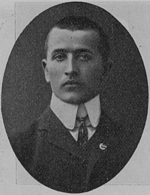 Uuno Railo (1887–1934), a Finnish sprinter